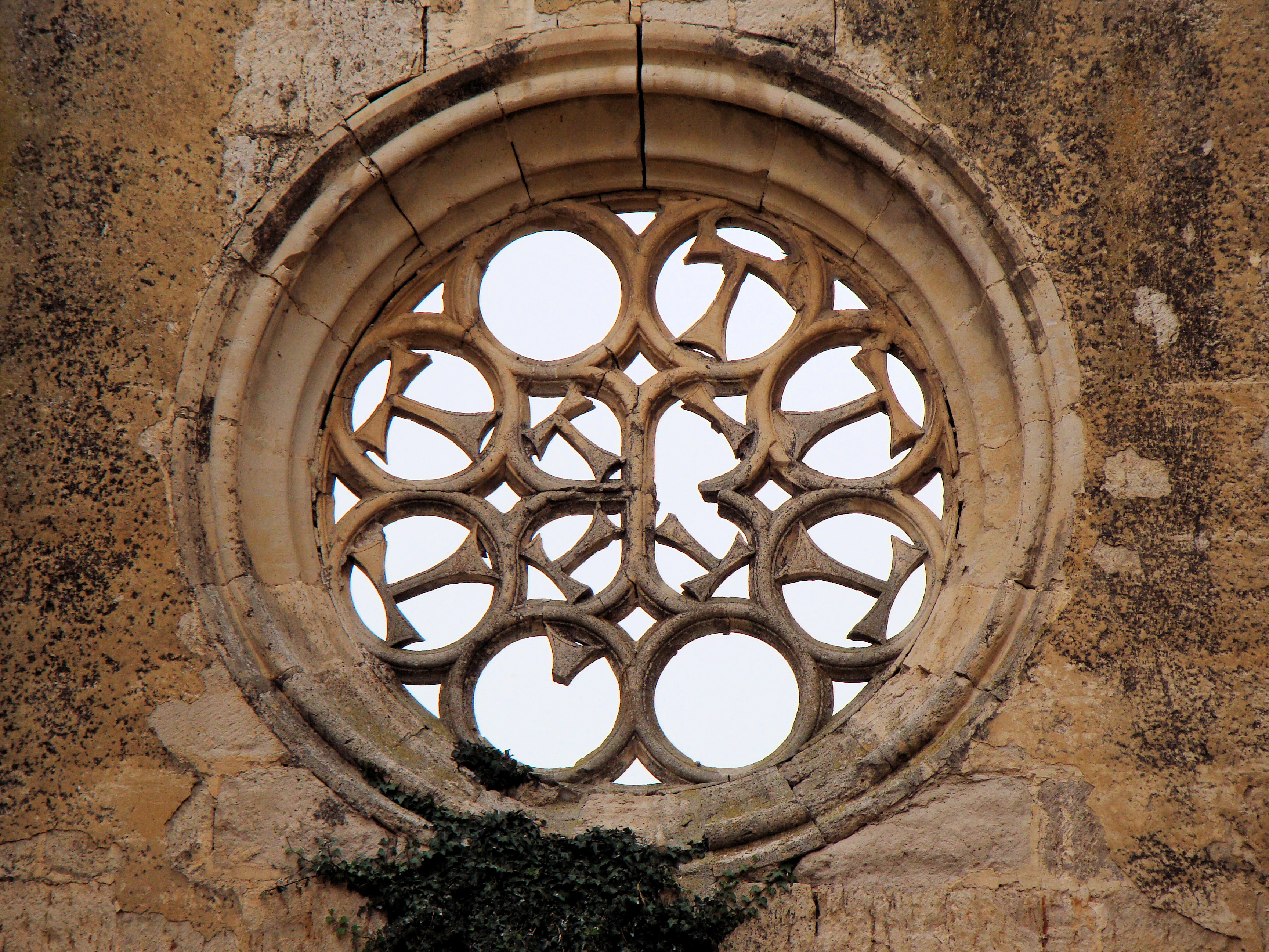 A window at the ruins of the Convento de San Antón from the 15th century, just east of Castrojeriz, Spain. The cross has a style with Egyptian origins, shaped like a T.